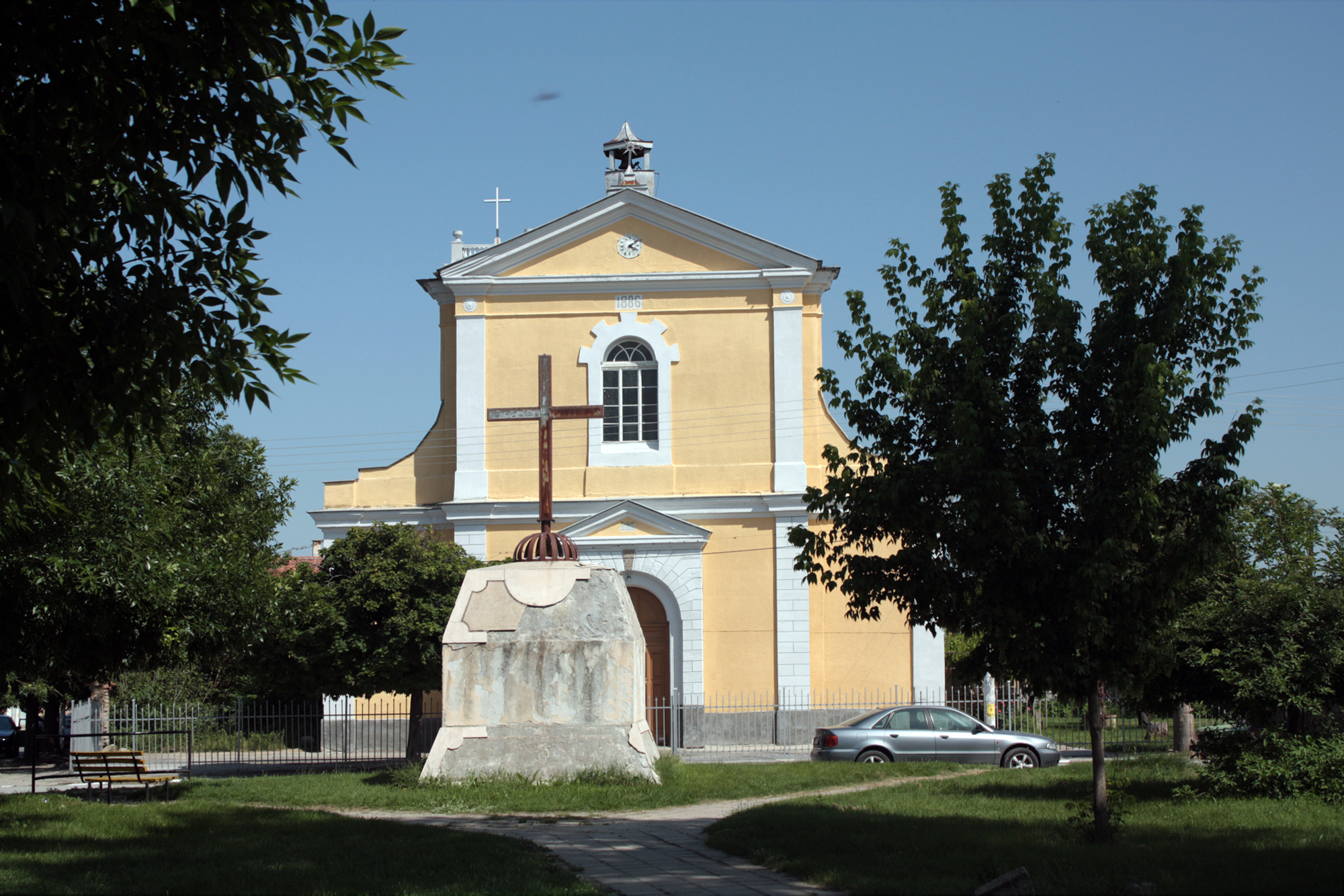 The church in Duvanlii village, Bulgaria